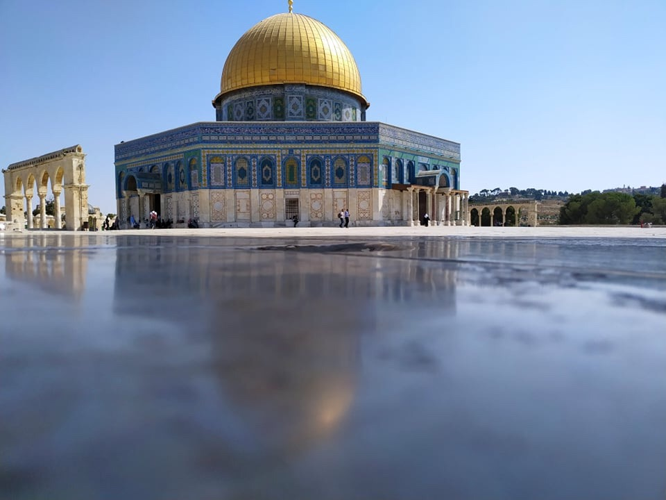 The Dome of the Rock : a part of Al-Aqsa Mosque in Jerusalem